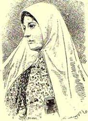 The poet Tahareh or Tahirih, computermade picture by meself